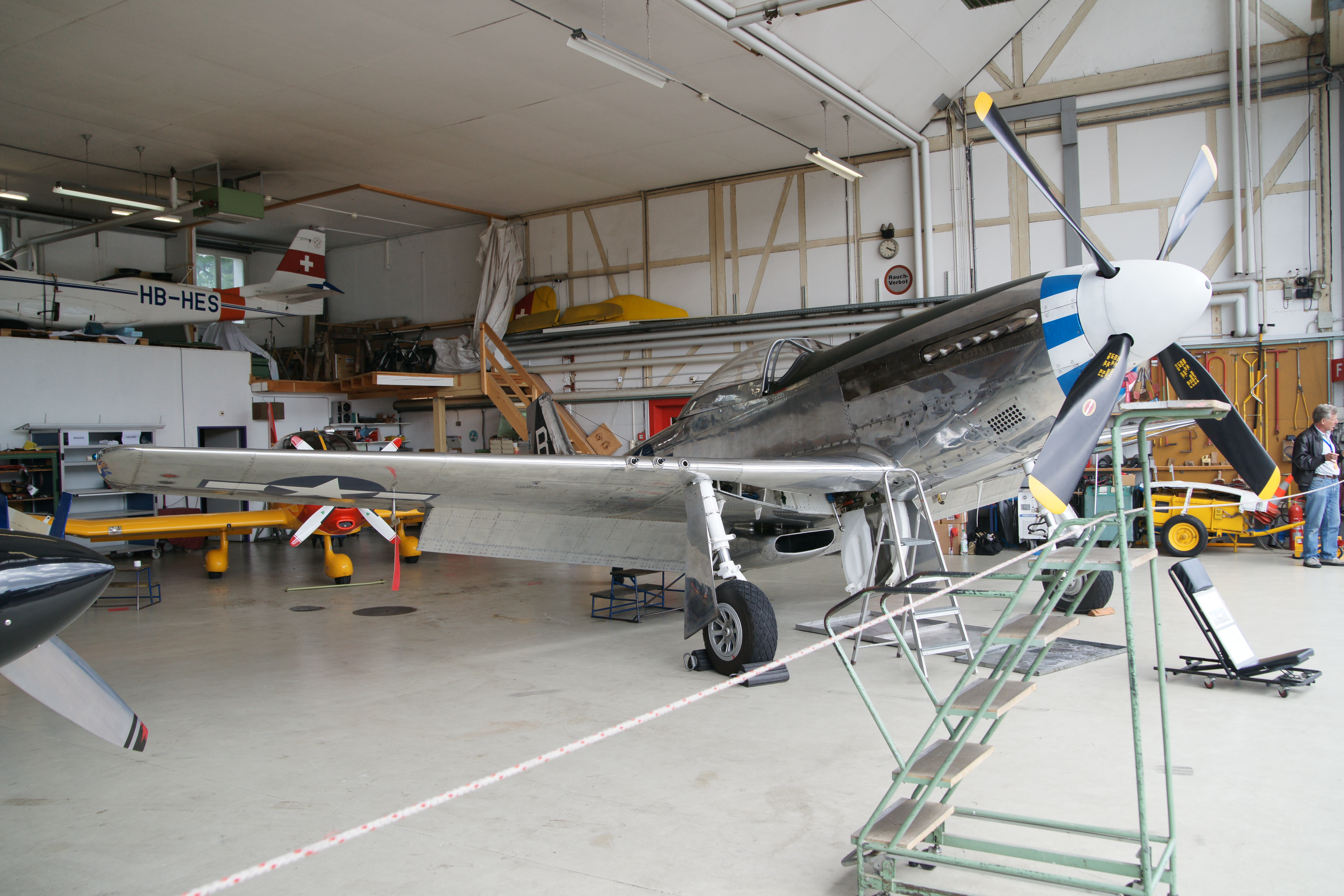 P-51D Mustang, s/n 44-72773, at the IBT'11 air show at Bern-Belp airport.